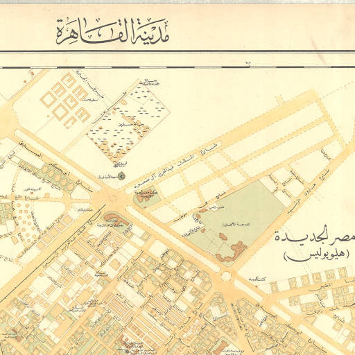 Map of Heliopolis (1951) from the AUC Rare Books and Special Collections Digital Library